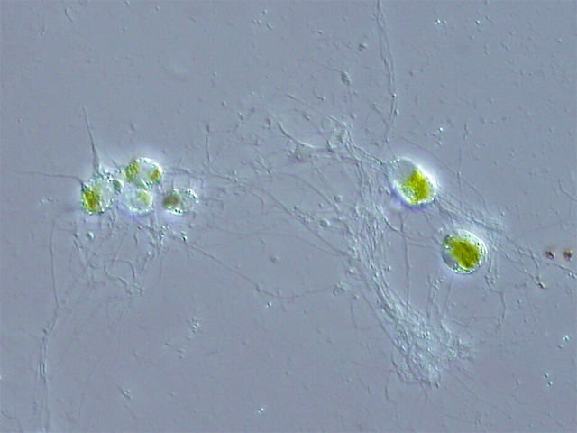 Chlorarachnion reptans Grell 1990 / from Amami-Oshima, Kagoshima Pref., Japan / Microscope:Leica DMRD (DIC)